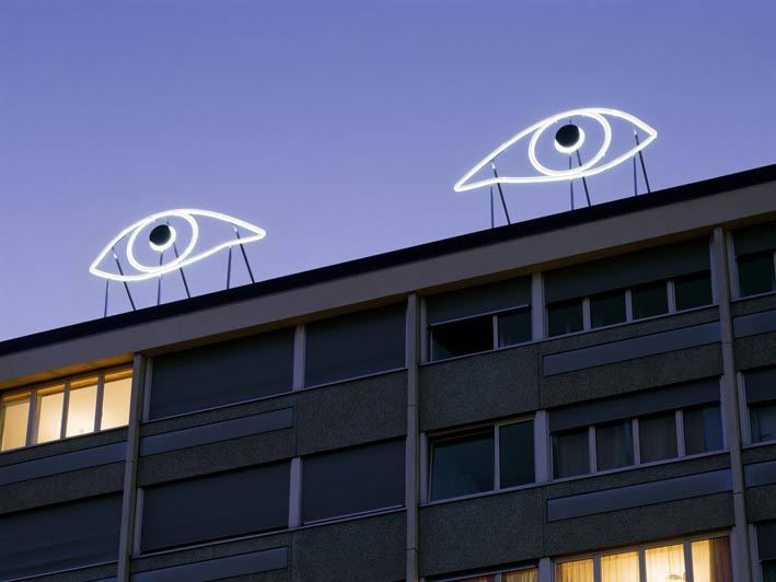 Axis of Silence an light artwork by Sislej Xhafa on a roof of the "Plaine de Plainpalais", Geneva, Switzerland. A public art project of the FMAC FCAC.